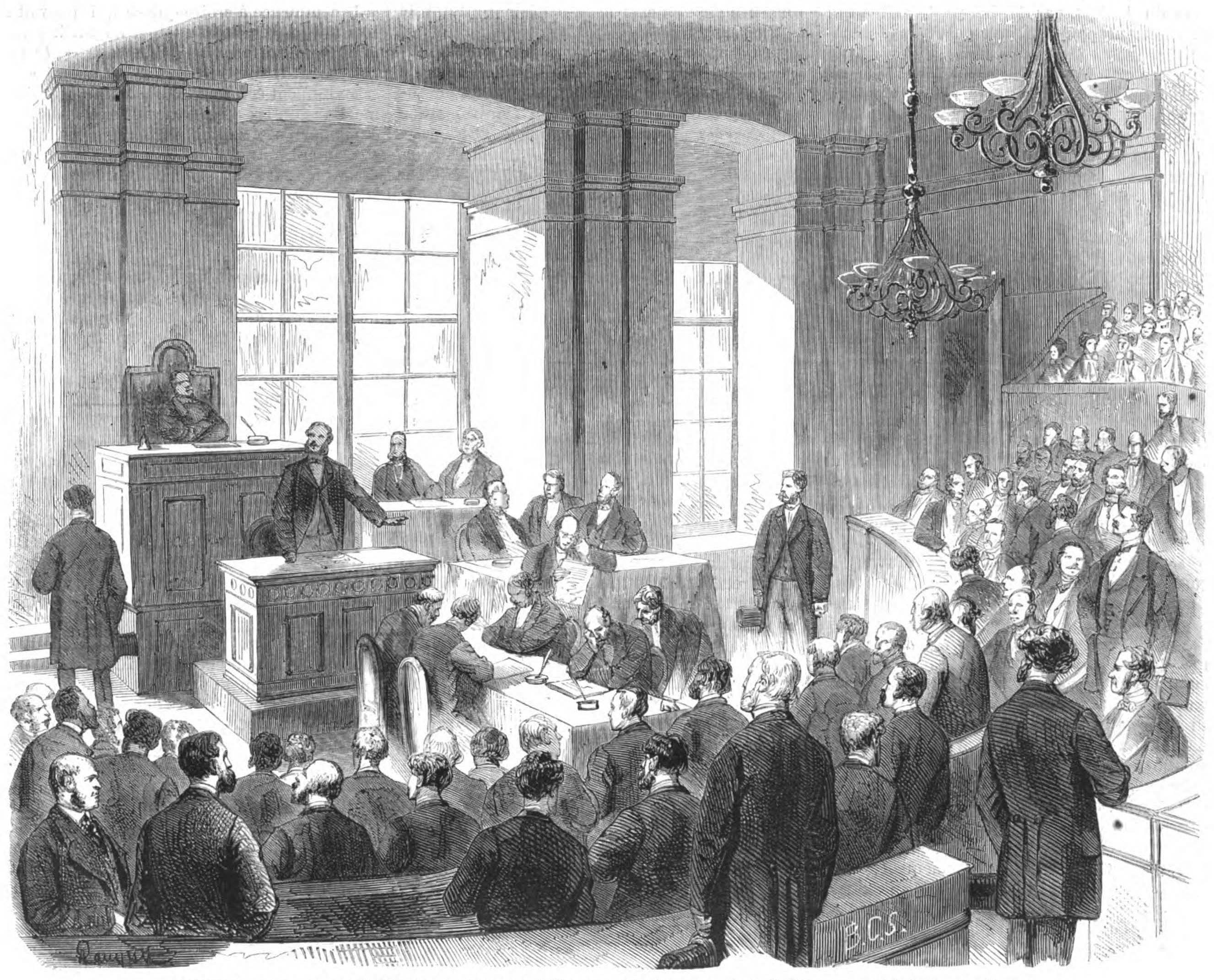 Illustration of the House of Lords of the Austrian Parliament. Original was created by Pauquet and Cosson-Smeeton after sketch of Petrovits.